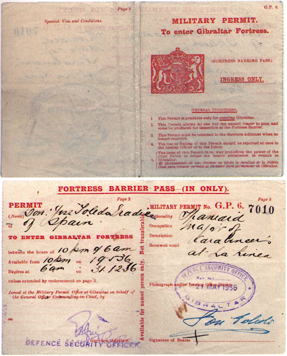 Night entry (10 pm to 6 am) permit for Giraltar 1936. (Border security control was at the North Gate.)